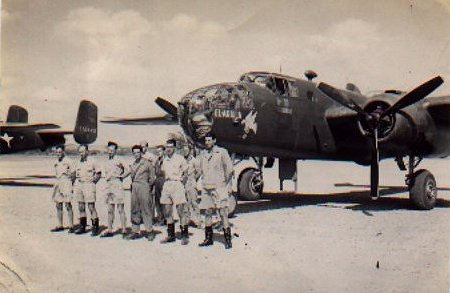 World War 2 American planes on a Basilan landing field